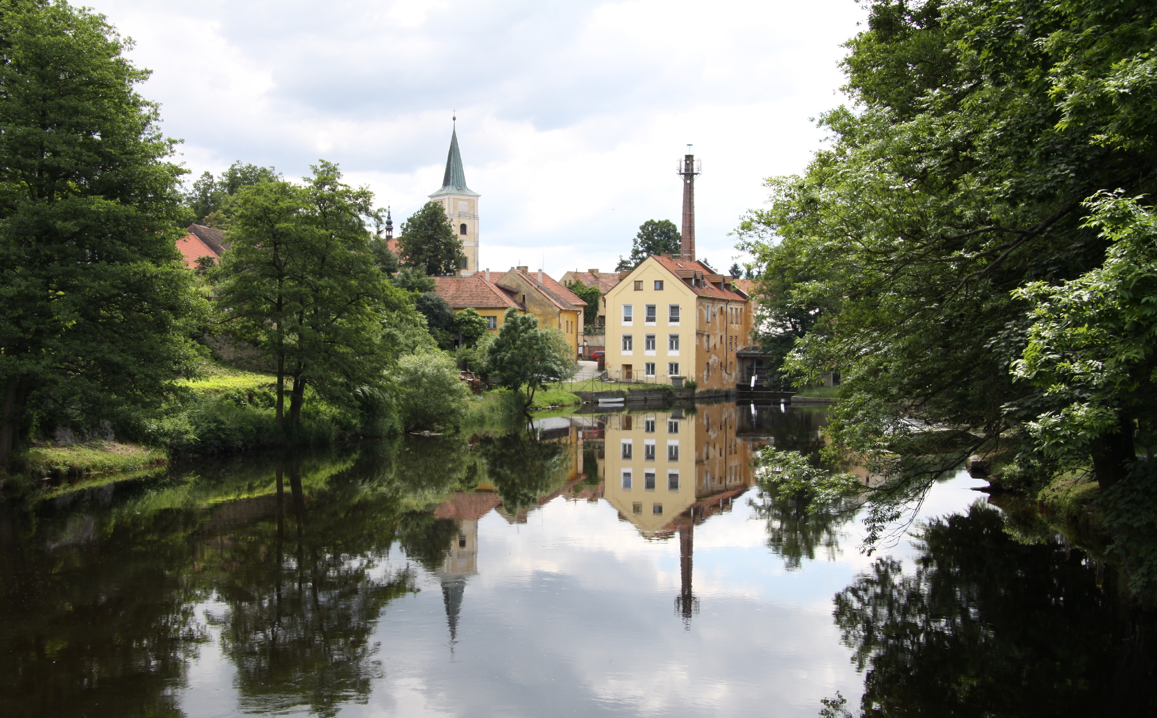 Střelské Hoštice village in Strakonice District, Czech Republic This photograph was taken within the scope of the 'Czech Municipalities Photographs' grant.